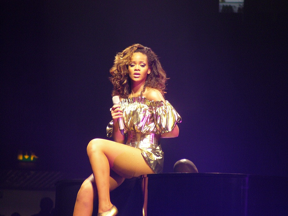 Rihanna live in Belfast, on her tour The LOUD Tour.